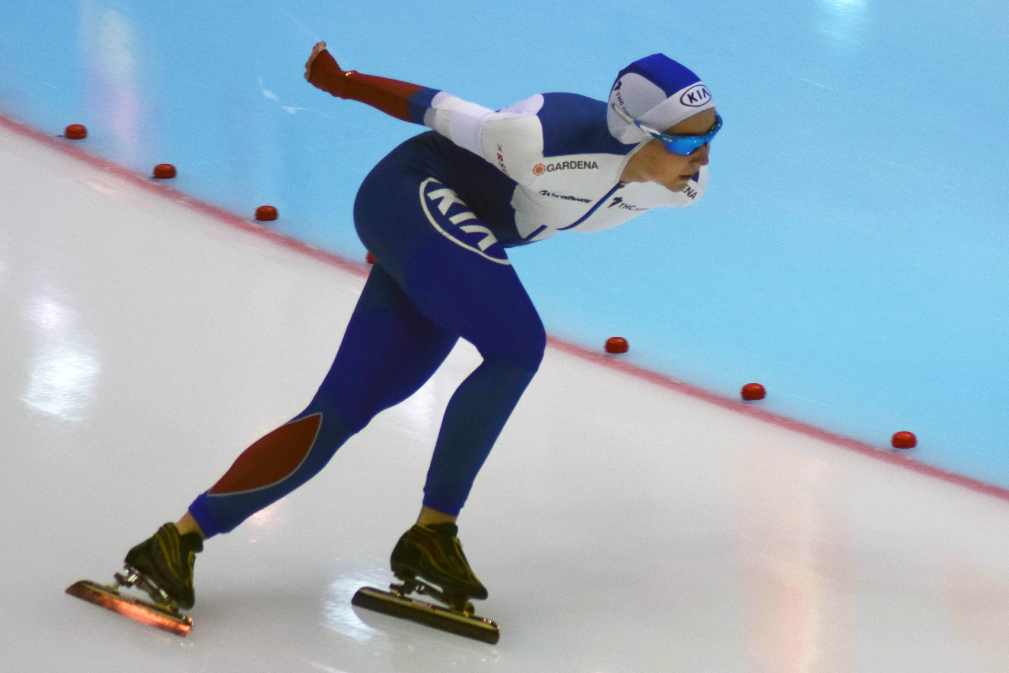 2016 World Single Distance Speed Skating Championships